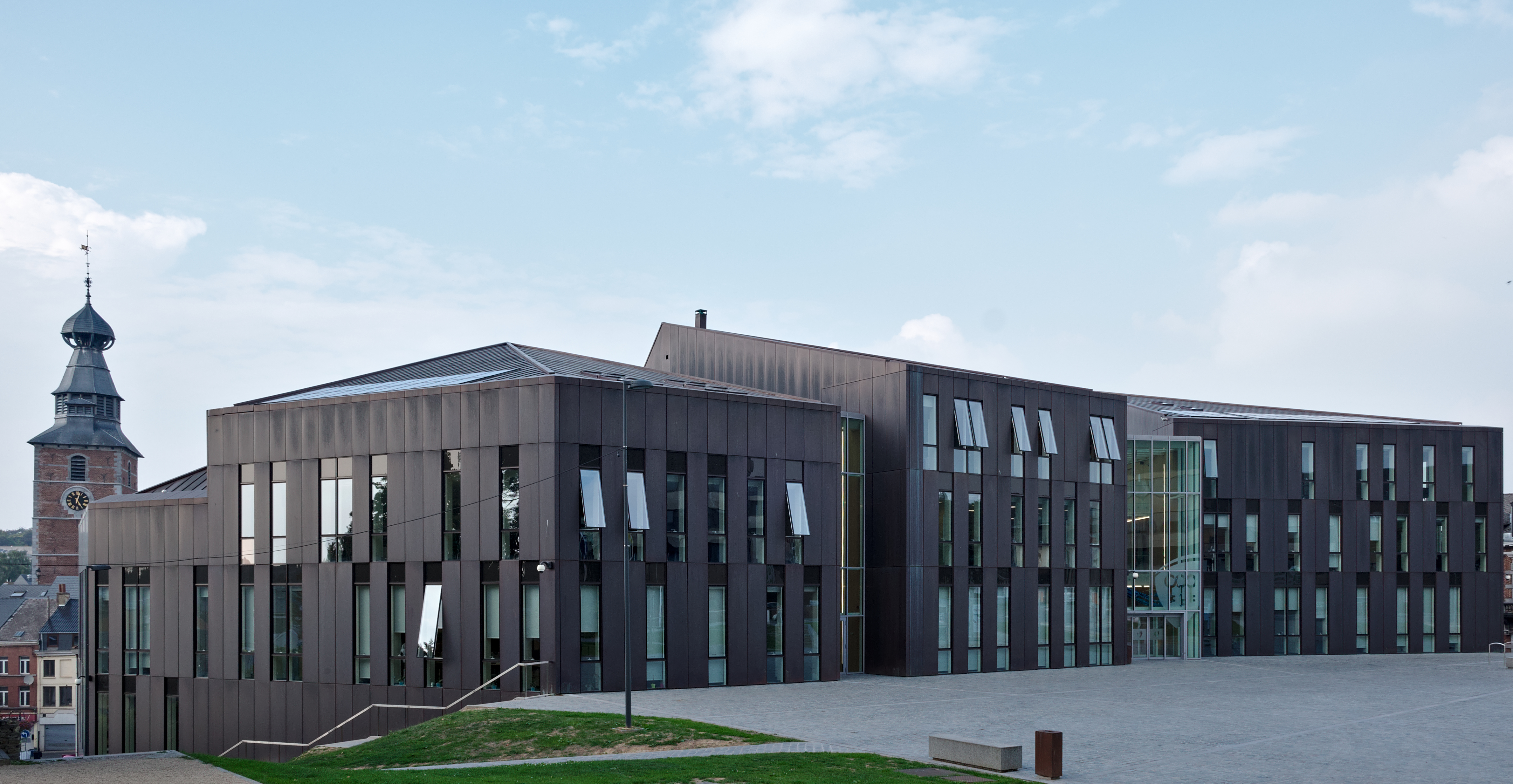 Current town hall of Gembloux with belfry visible in the background This photo of immovable heritage has been taken in the Walloon Region